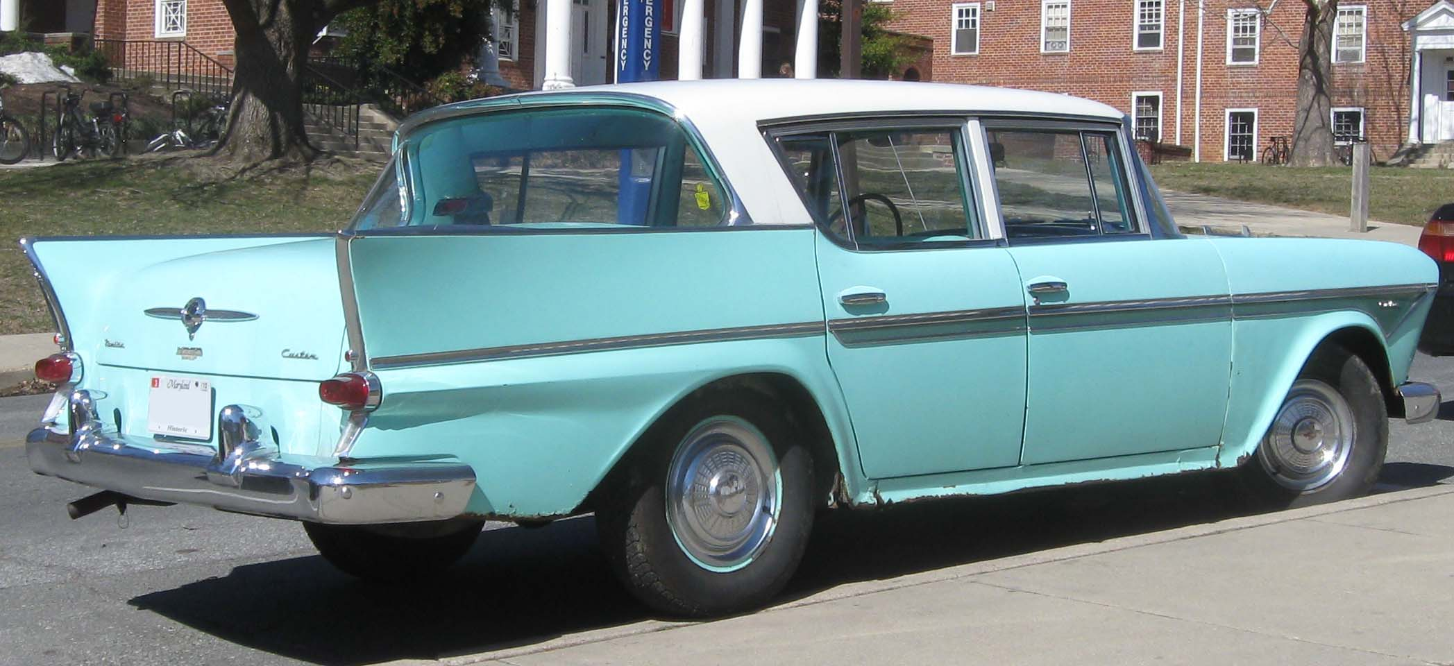 1958 Rambler Custom photographed in College Park, Maryland, USA.